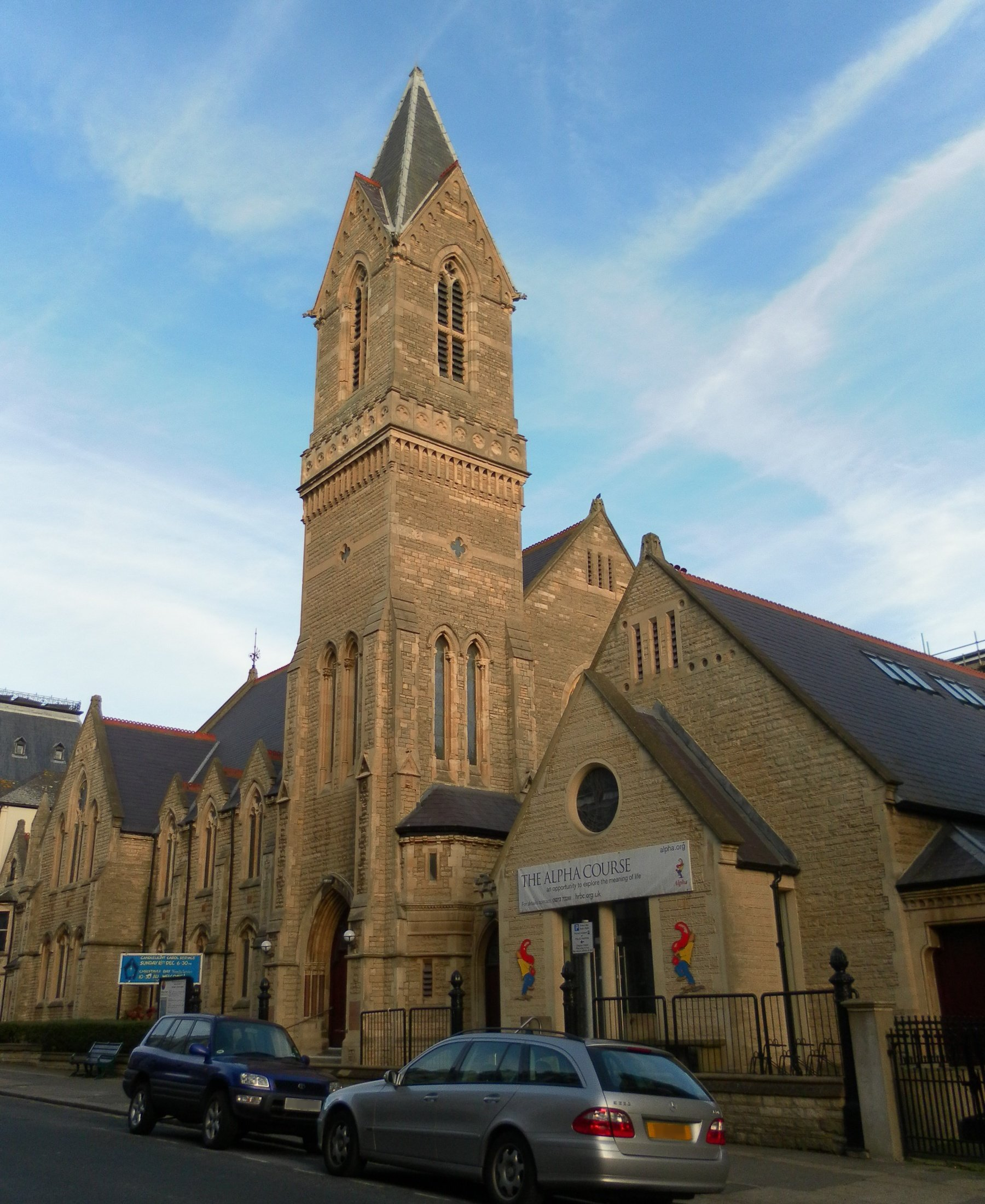 Holland Road Baptist Church, Holland Road, Hove, City of Brighton and Hove, England. Built in 1887 of Purbeck stone. Listed at Grade II by English Heritage (NHLE Code 1280592)